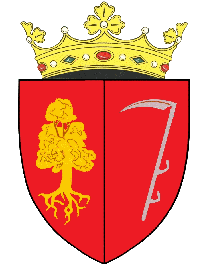 CoA of Orhei District